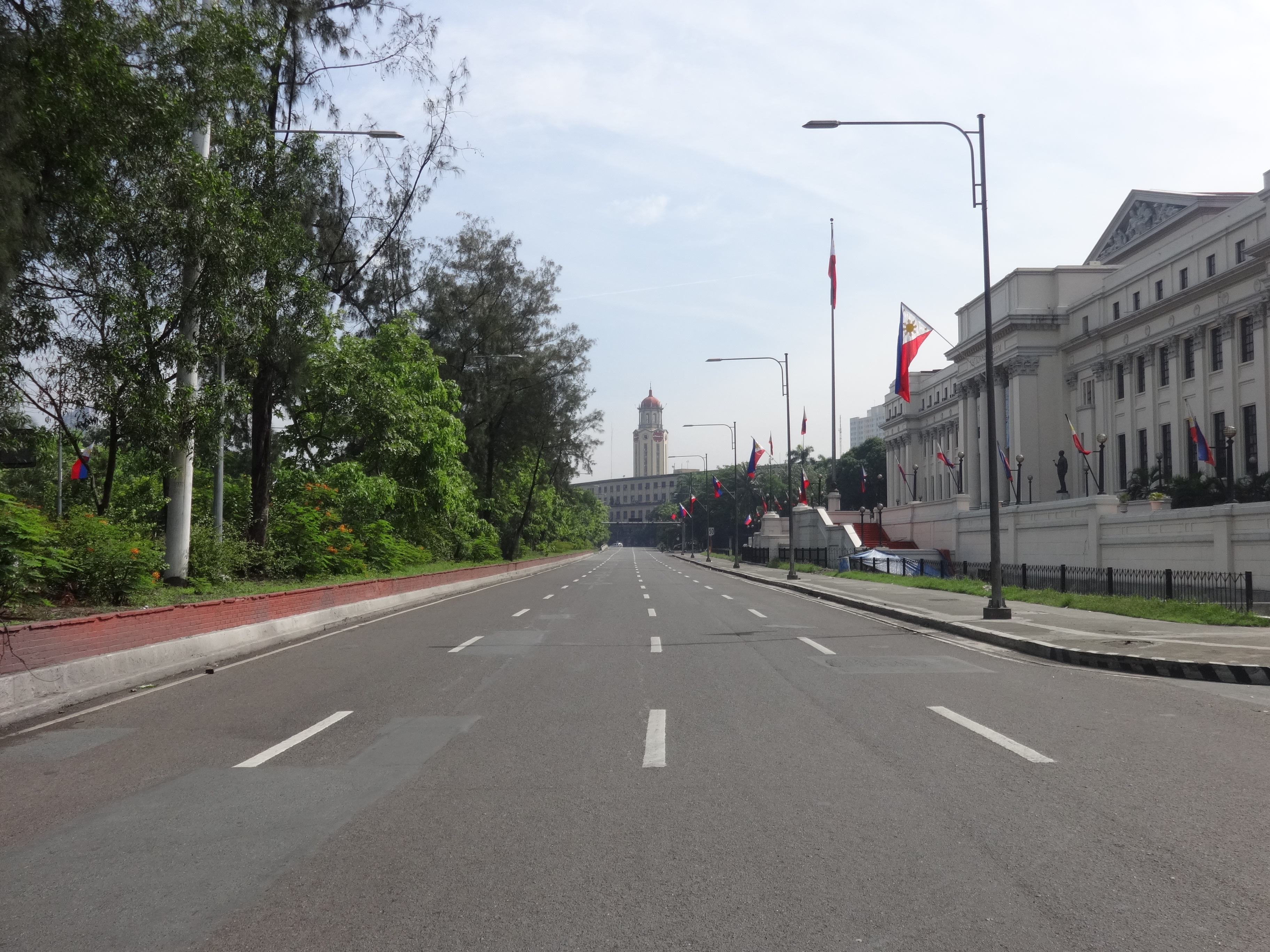 Padre Burgos Avenue in Ermita, Manila, with Manila City Hall and National Museum